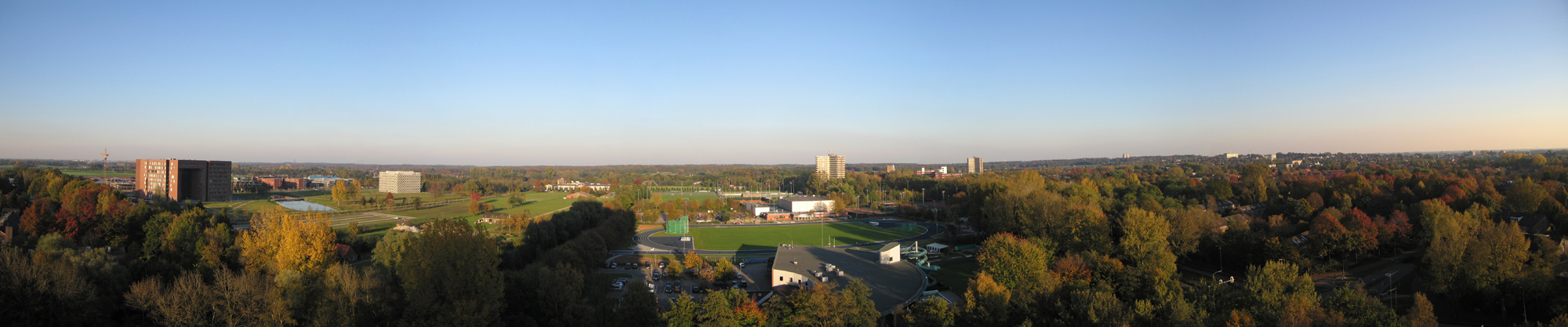 Campus of Wageningen University